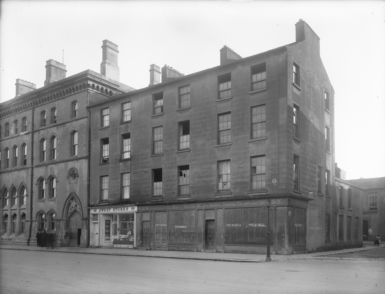 Ulster Bank premises on The Quays, Waterford before renovation. The building to the left, with 1876 carved over the doorway is a post office still, and think that it was then. The Ulster Bank's still at this location . The little shop at no. 99, the Sweet Stores, has a lovely metal sign for Player's Navy Cut Cigarettes. A shopkeeper in white overalls can be seen peering out from under the bananas, with lots of fruit in the window - including tomatoes? Upstairs, signs on the windows read Goodman's Studios, and there's a woman leaning out of a second floor window. Shutters on no. 97 and 98, the proposed premises of Ulster Bank Ltd., have POST NO BILLS stencilled, but there's been time for plenty of chalked graffiti and doodles to be added by the local citizenry. A plaque on the front corner reads FP 22 Ft. Date: 23 October 1928 NLI Ref.: P_WP_3567